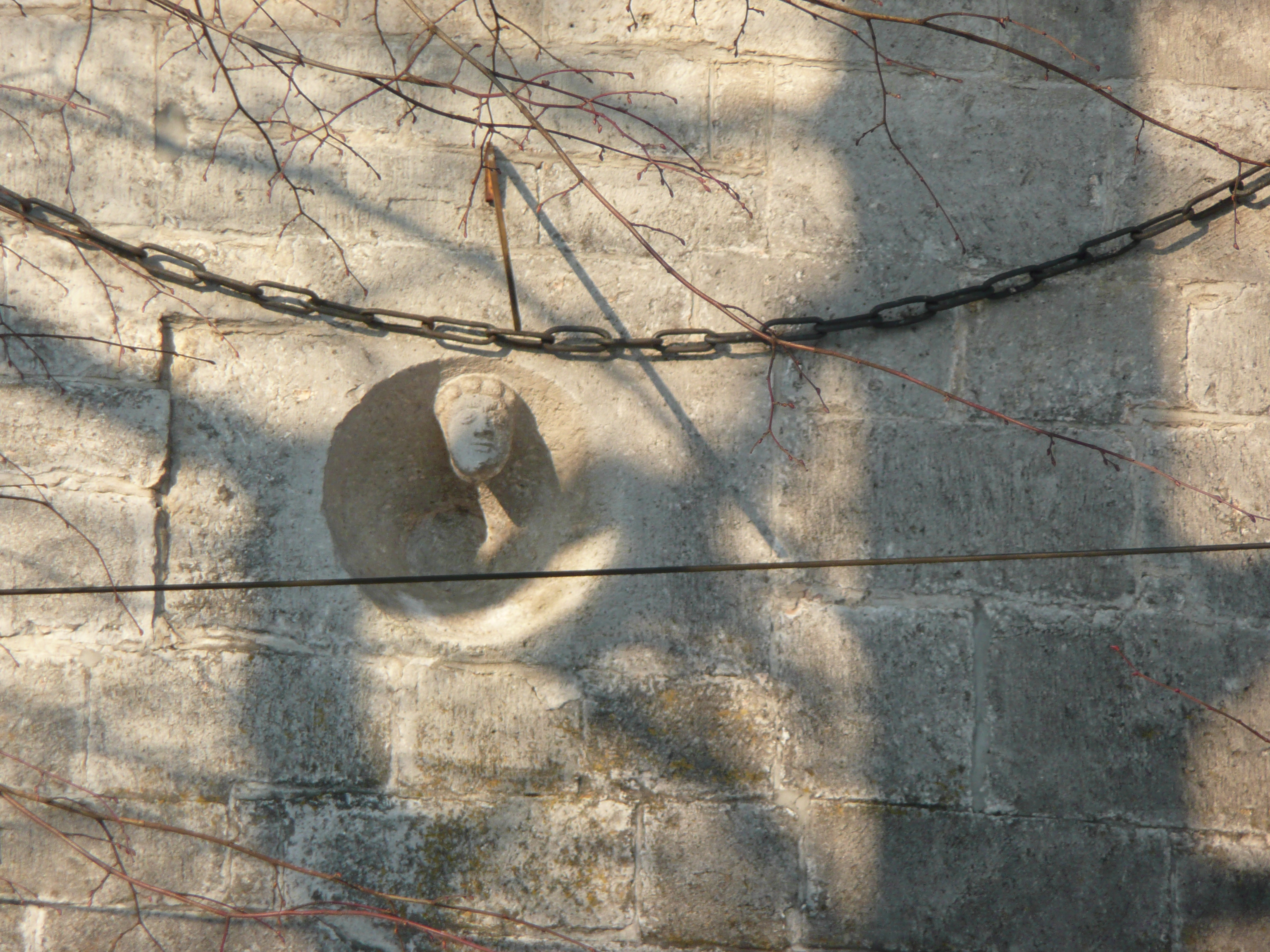 Saint Leonard church in Tholbath near Theißing seen from South. Romanic, sanctified in 1190. Sun dial on the southside.